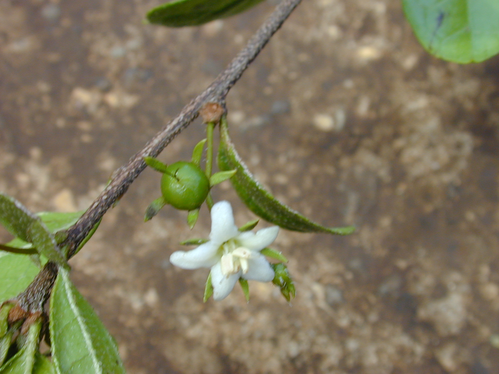 Carmona retusa (flower & fruit). Location: Maui, Haiku